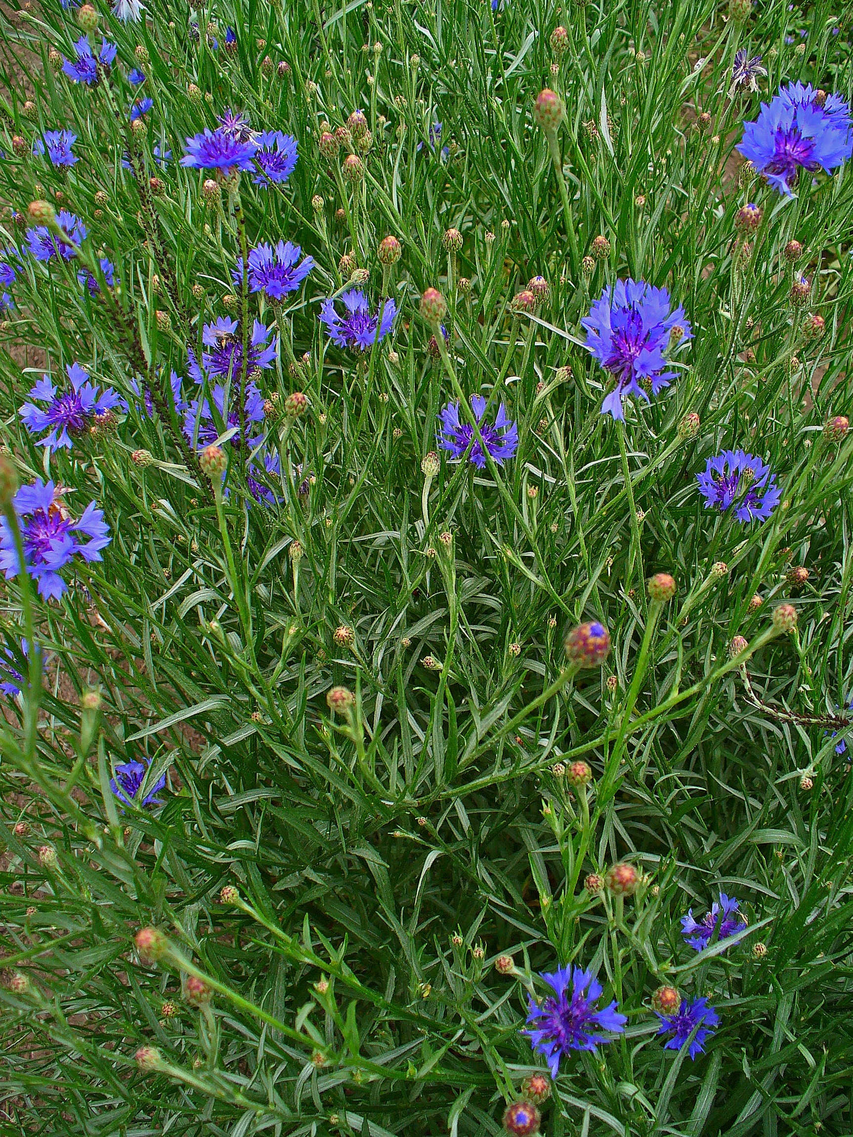 Centaurea cyanus, Asteraceae, Cornflower, Bachelor's Button, Bluebottle, Boutonniere Flower, Hurtsickle, habitus; Stutensee, Germany. The plant is used in homeopathy as remedy: Centaurea cyanus (Cent-c.)